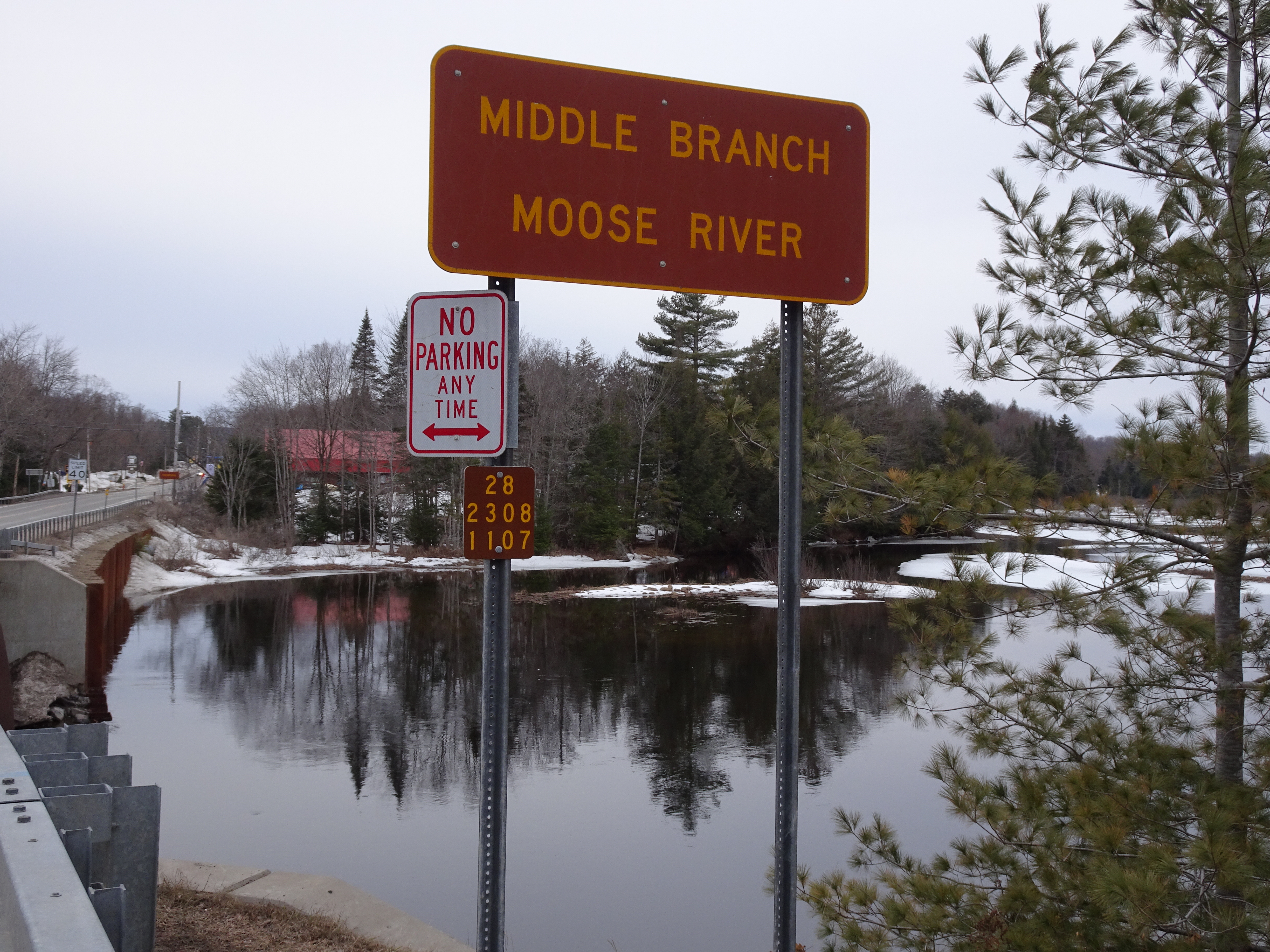 Middle Branch Moose River sign at Route 28 in Old Forge, NY.